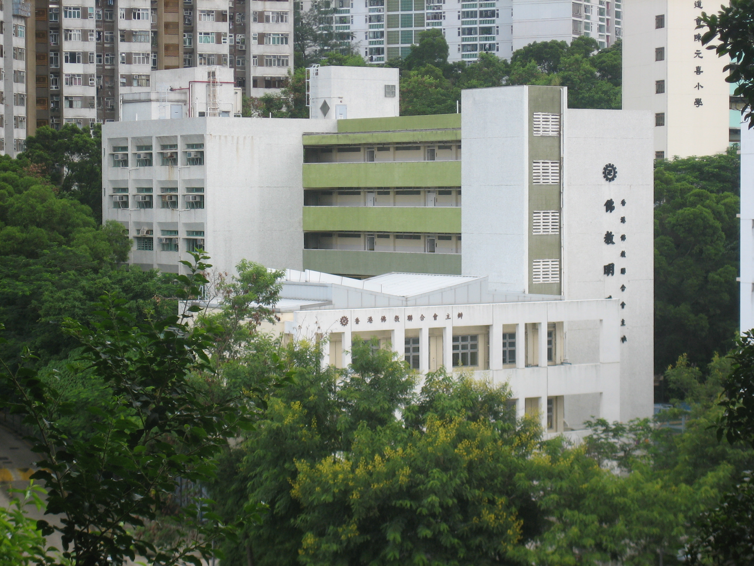 Buddhist Bright Pearl Primary School